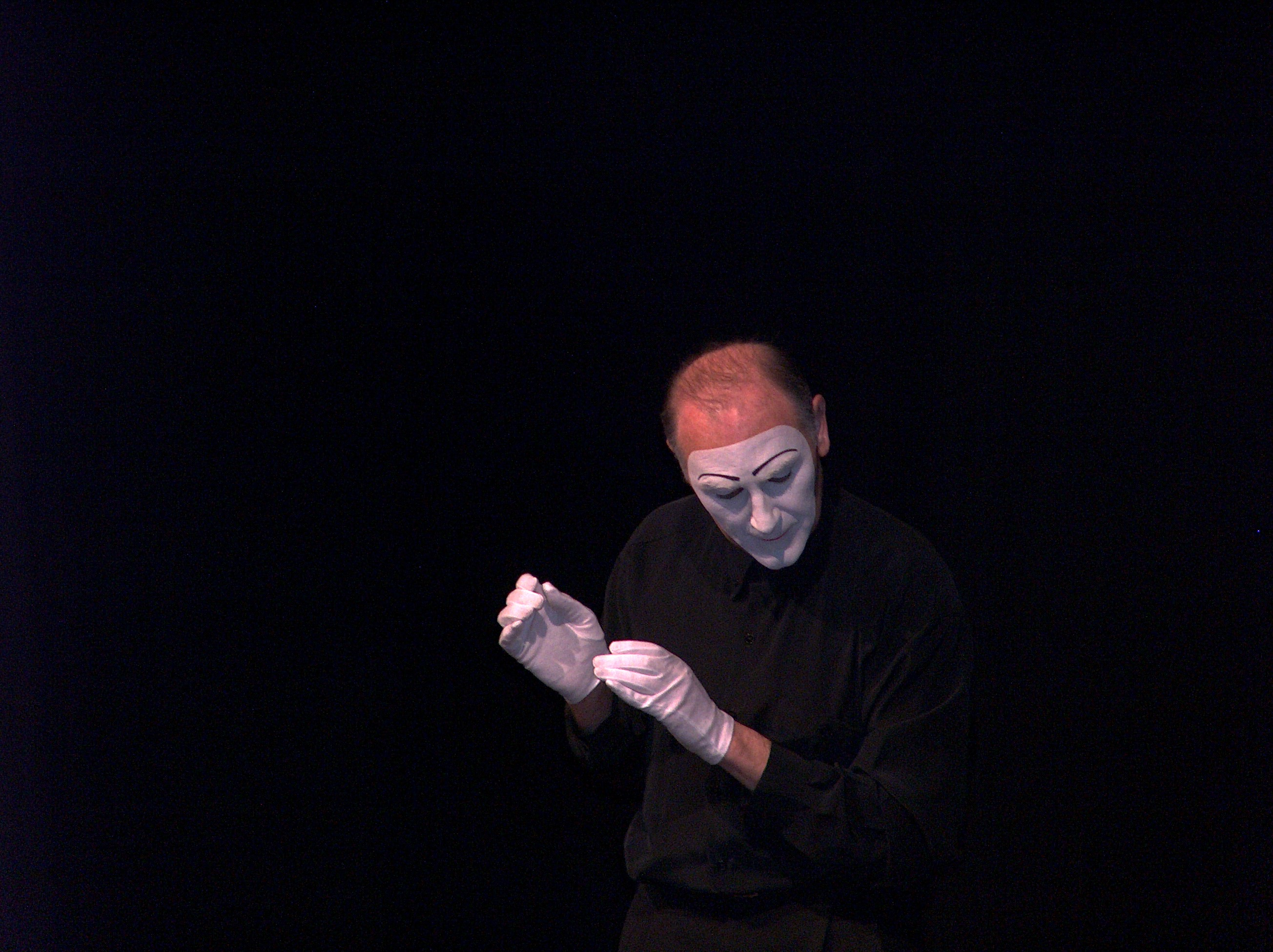 Carlos Martínez in a mime performance